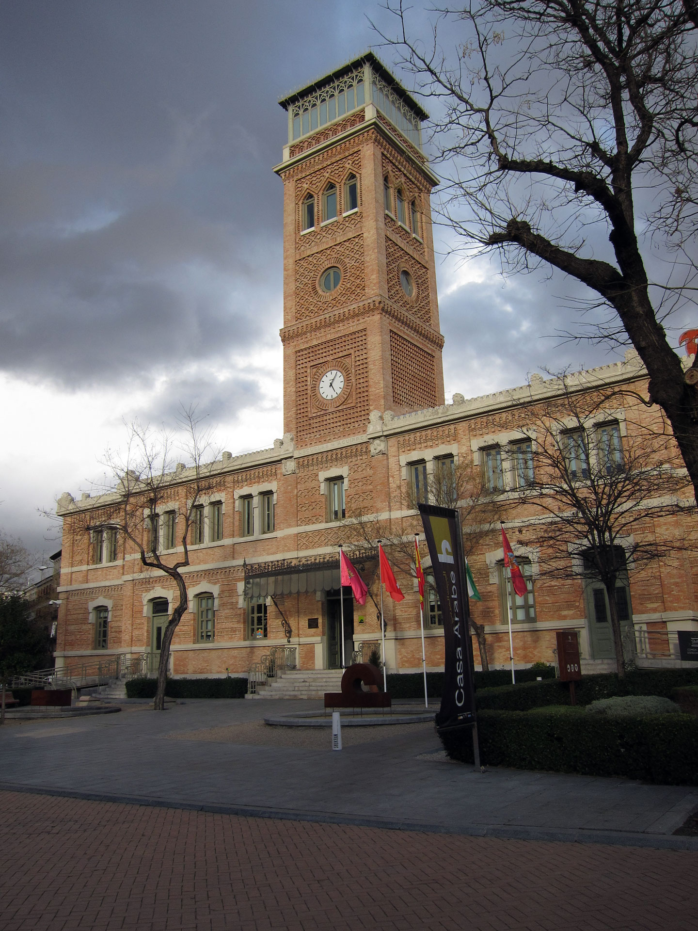 Arabian House (Casa Árabe), an International Institute of Arab and Muslim World Studies located in Madrid (Spain)